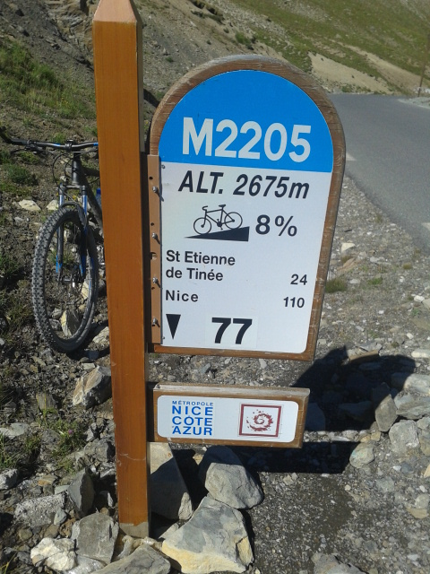 Mountain pass cycling milestone at the Cime de la Bonette in France descending to St Etienne de Tinee